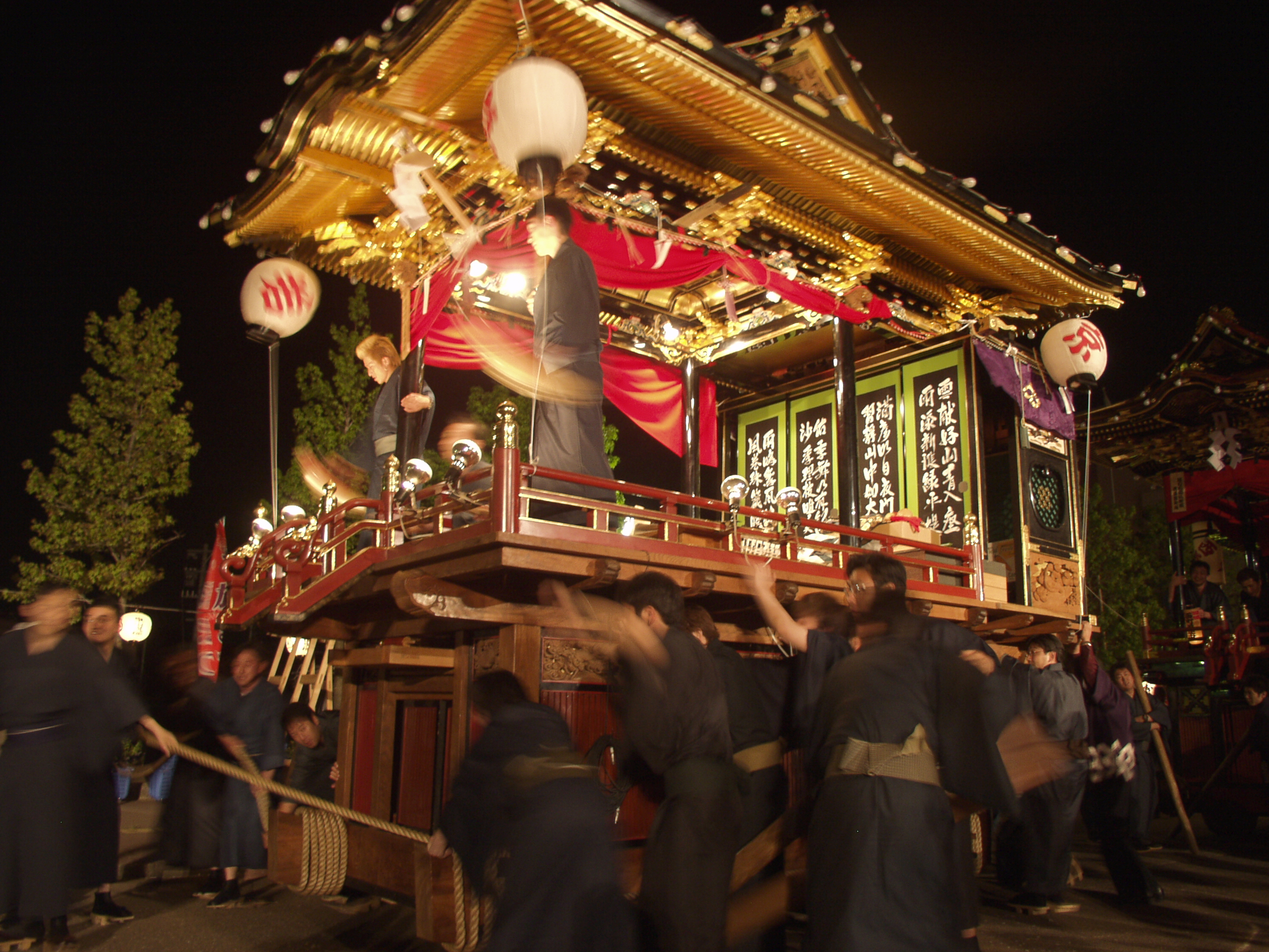 Otabi-Matsuri. The child KUBUKI festival in Japan.